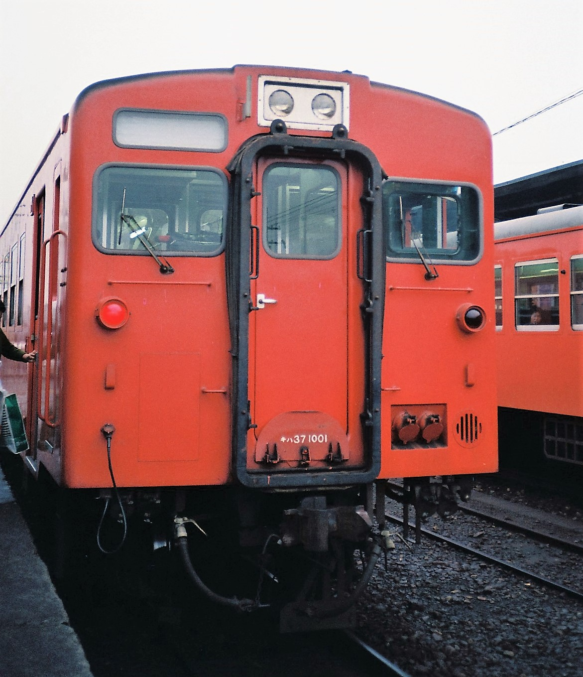 JNR KiHa 37 DMU car KiHa 37 1001 at the former Nishiwaki Station on the Kajiya Line (now closed)